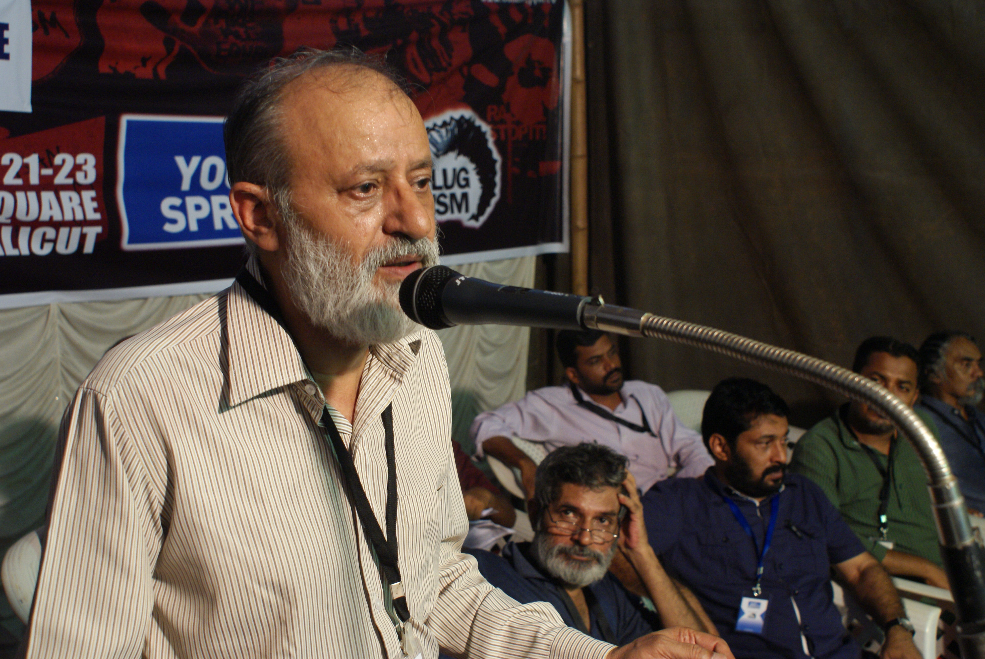 Gouhar Raza in Solidarity Youth Spring Film Festival 2016